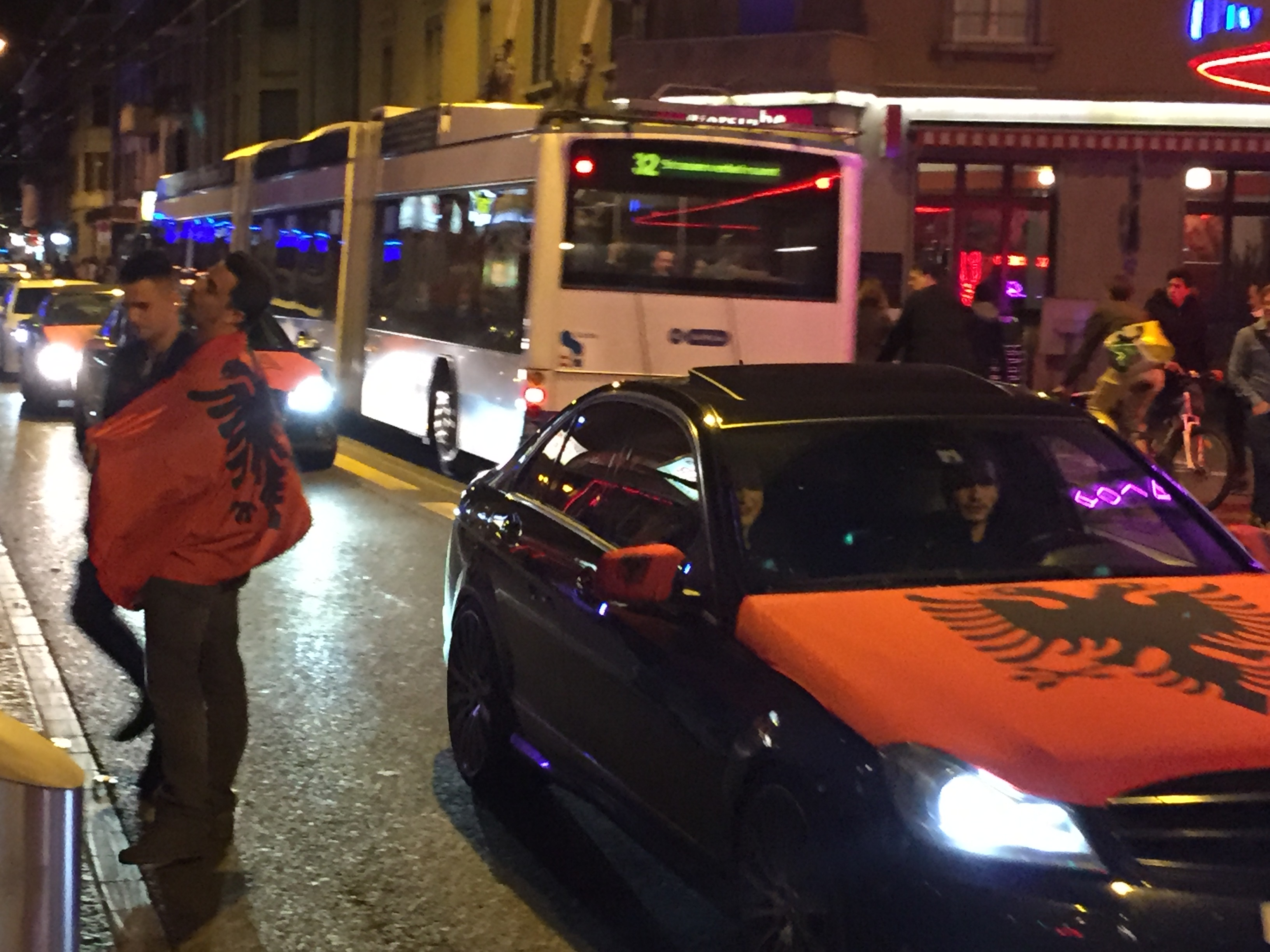 Cheering Albanians after their team has won at the European Championship 2016